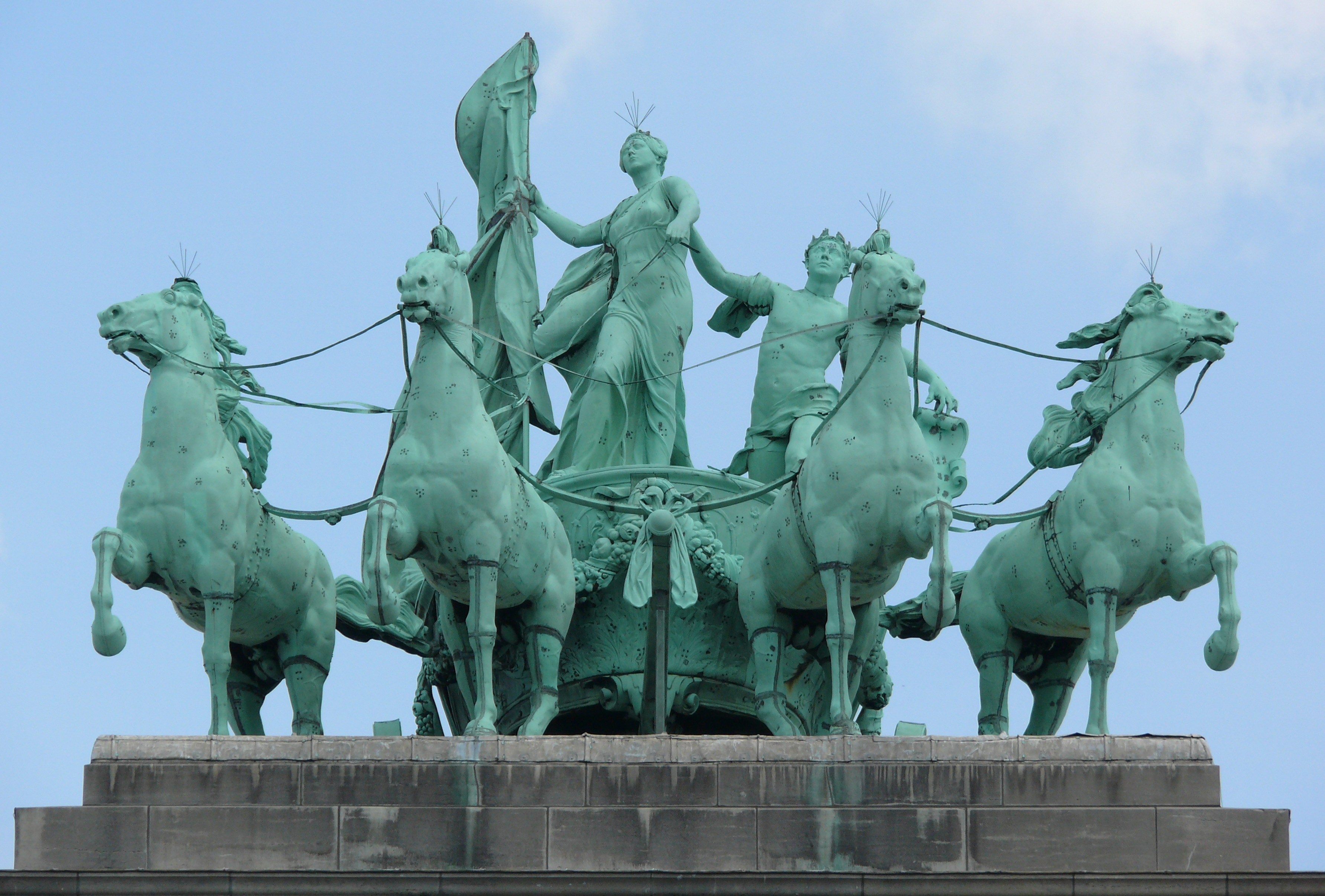 Triumphal arch (1905) of the Jubelpark in Brussels. Quadriga by Thomas Vinçotte (1850-1925) and Jules Lagae (1862 – 1931).